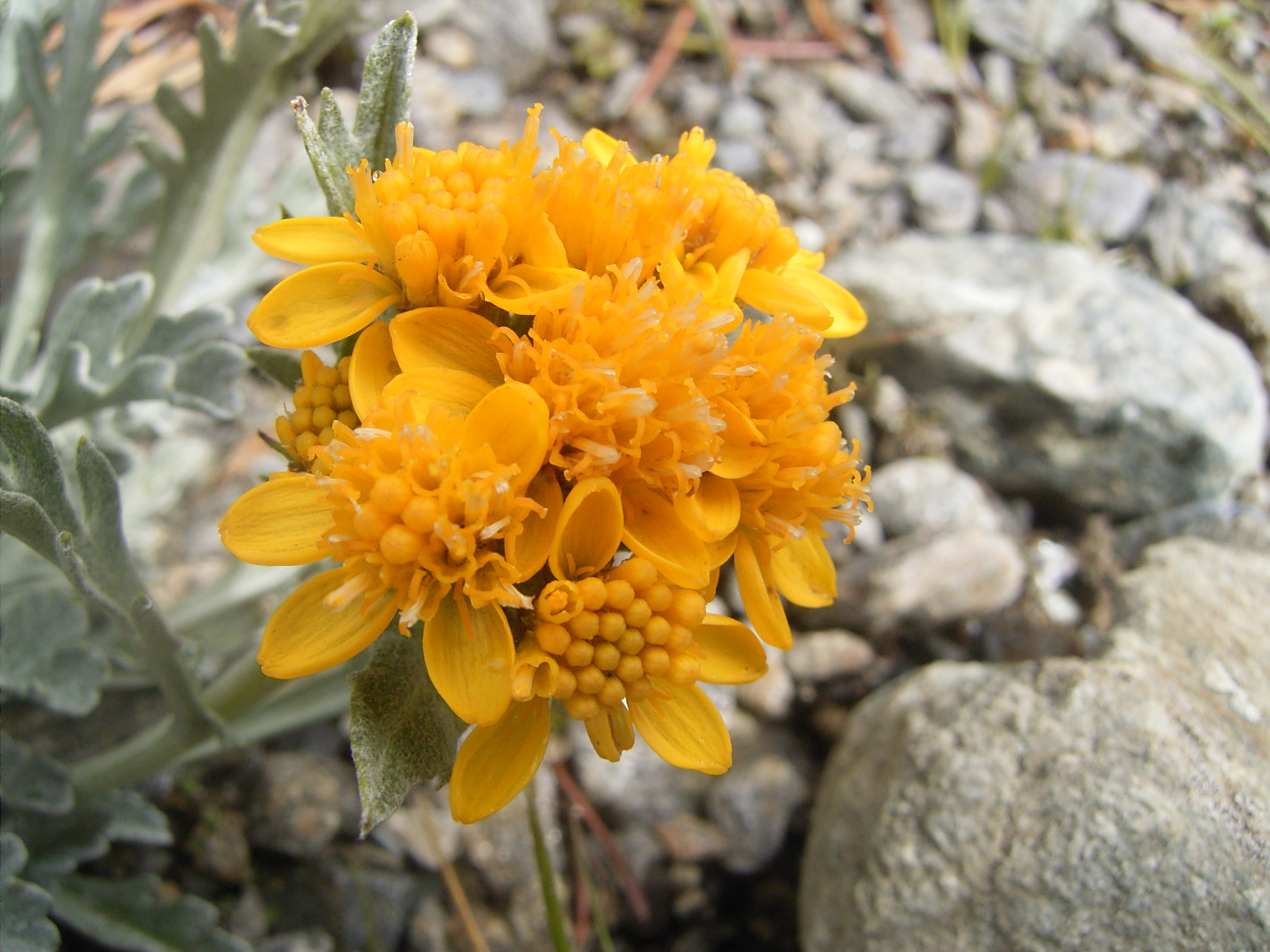 This photo shows Senecio invanus